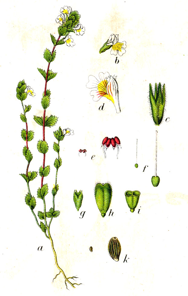 Euphrasia nemorosa (Pers.) Wallr. s. l. Original Caption Wald-Augentrost, Euphrasia nemorosa